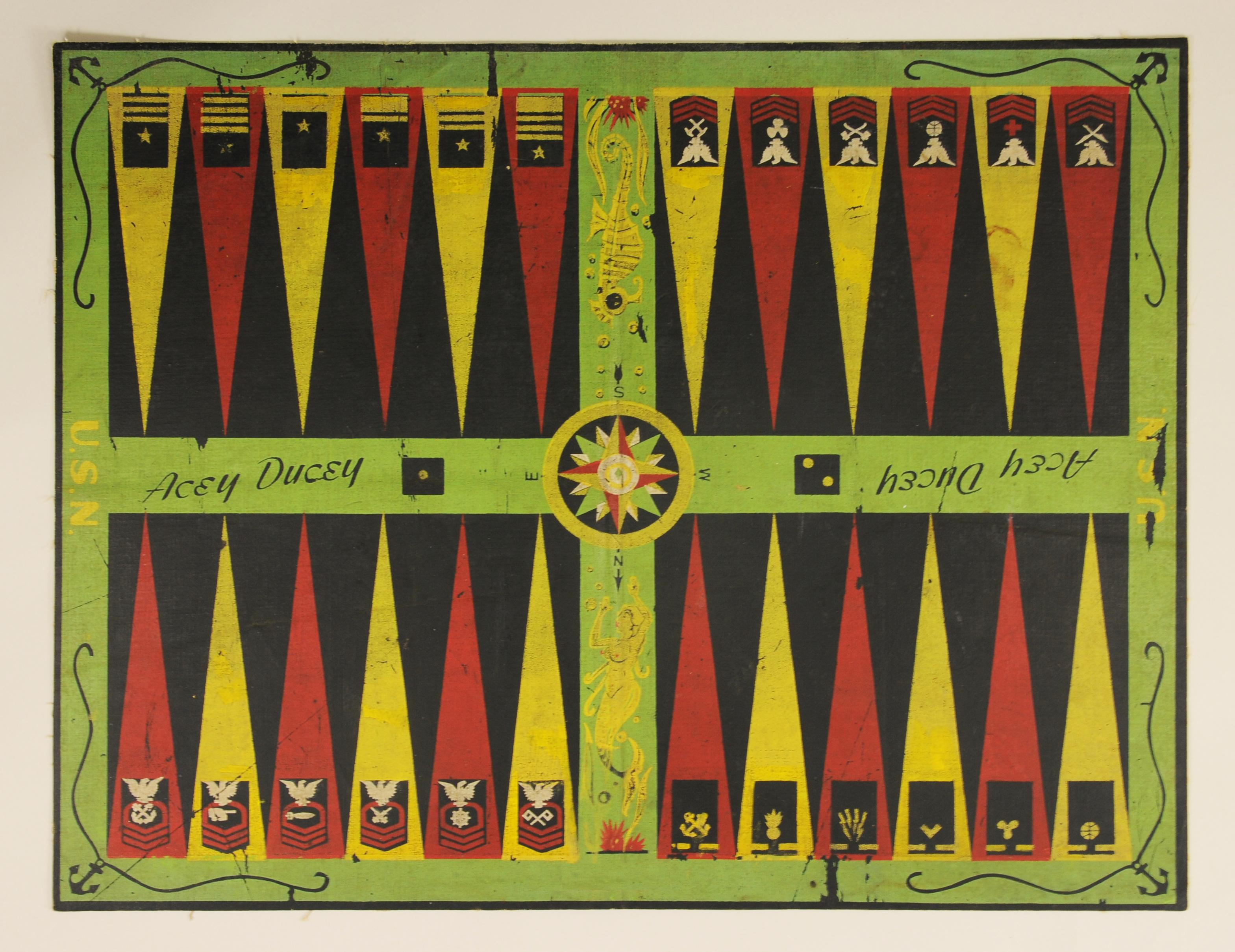 1900-1925 21” x 26” Oil on canvas NHHC 1984-123-B Headquarters Artifact Collection, Naval History and Heritage Command During the first quarter of the twentieth century, Acey-Duecey was a popular pastime of U.S. Sailors. Similar to backgammon, the dice and board needed to play the game could be easily packed and stored while aboard ones ship. This colorful Acey-Duecey board was printed on canvas and incorporates a seahorse, mermaid, compass rose, U.S. Navy Officer Rank Insignias and U.S. Navy Enlisted Rating Badges. "Acey-Ducey." Our Navy, The Standard Publication of the United States Navy, May 1, 1921, 44-45.